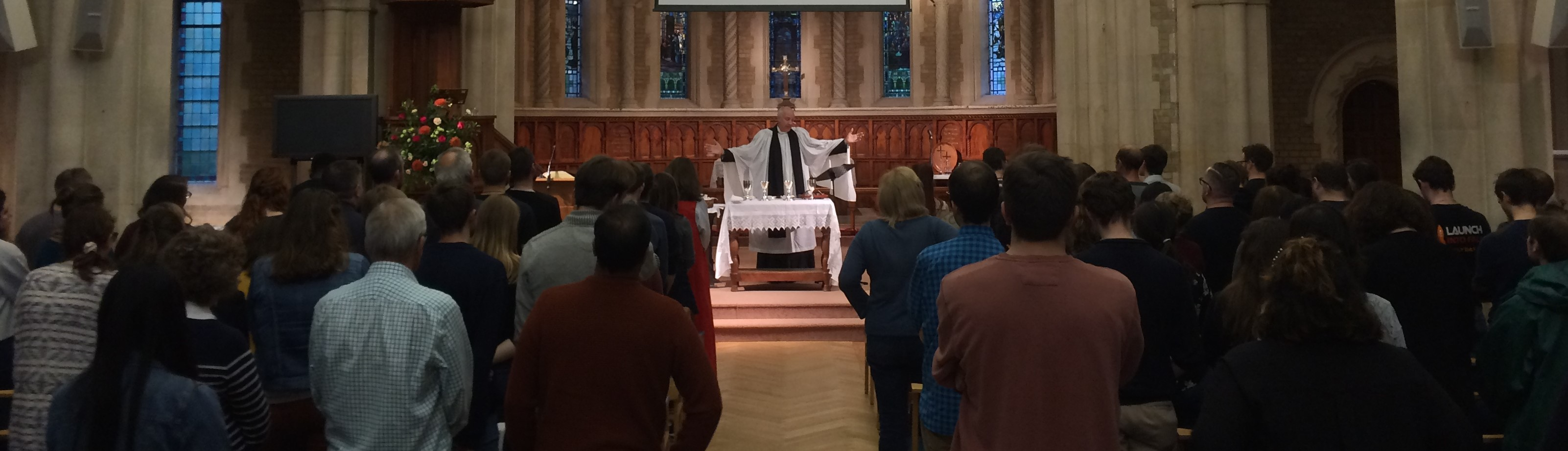 Start of year Wycliffe Hall service at St Andrews North Oxford